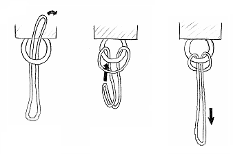 Cow Hitch knot made with closed loop. Originally drawn by Matthew Gates, 2004.